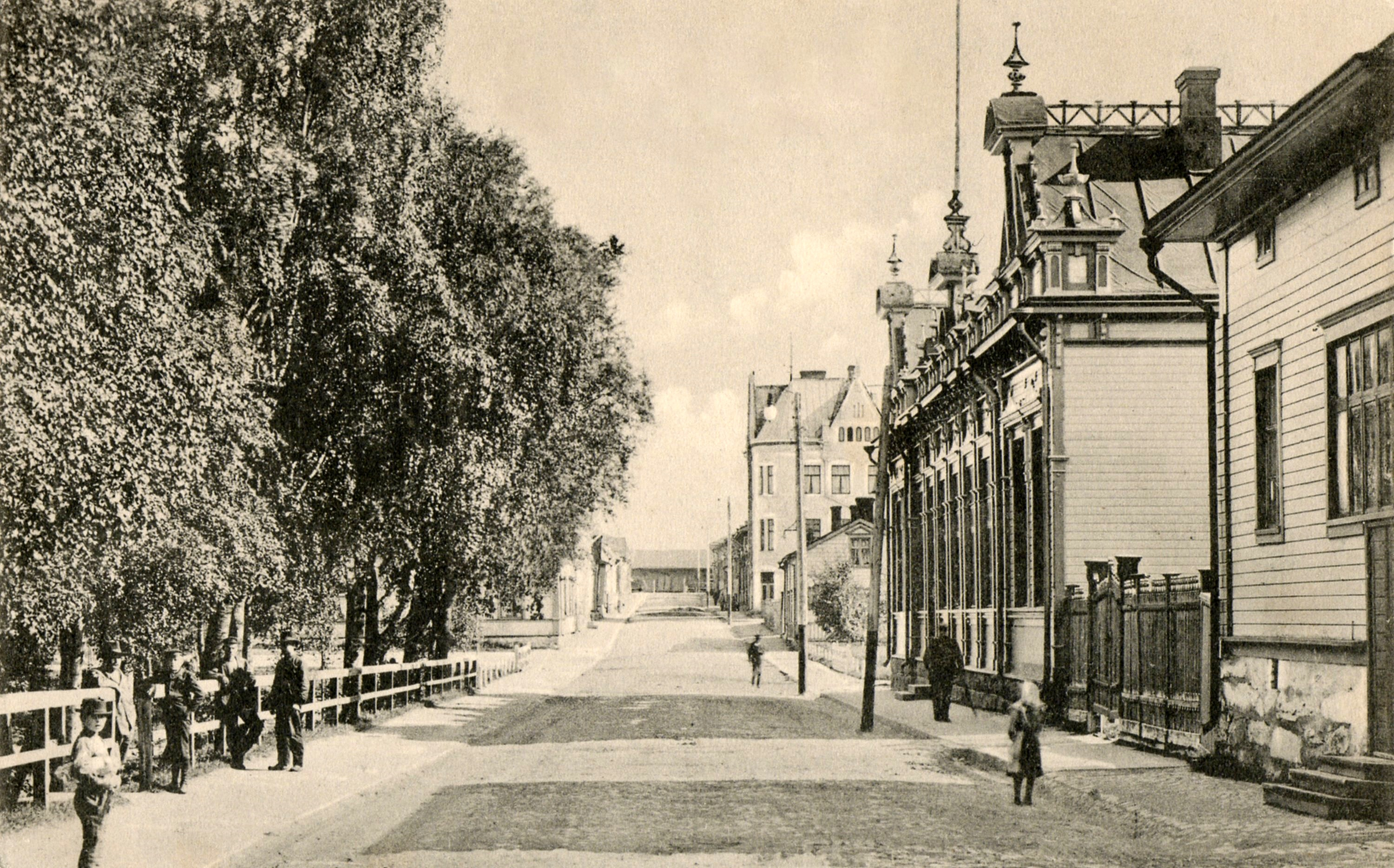 Pakkahuoneenkatu street with the workers' community hall in the background (built in 1903) and voluntary firebrigade building (decorative wooden building) in the foreground.